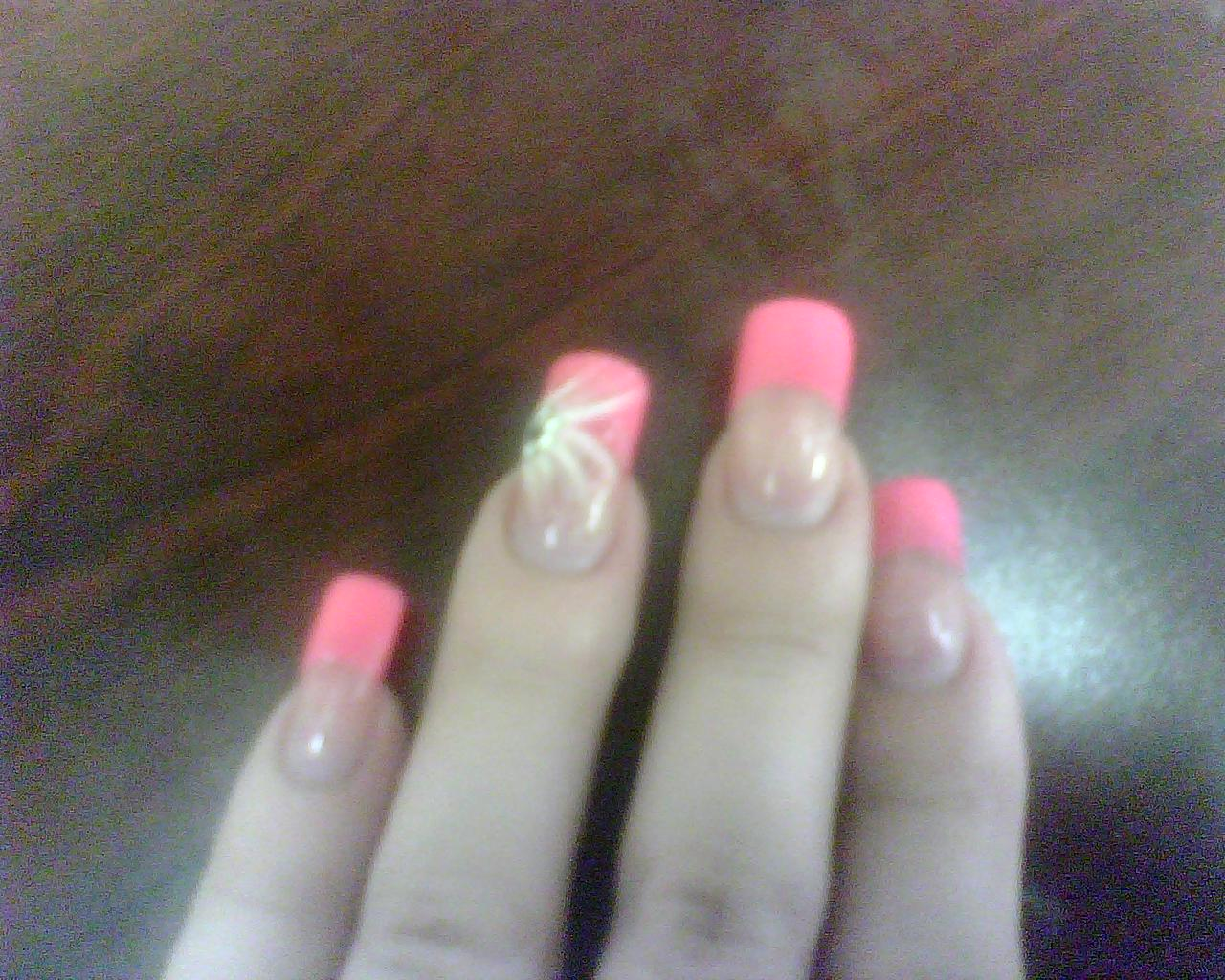 Fingernail example.